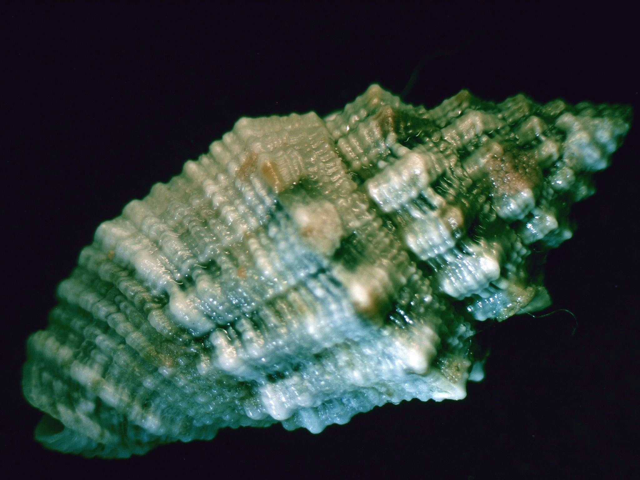 Vexillum crispum (Garrett, 1872) , an ribbed miter from the family Costellariidae; Philippines